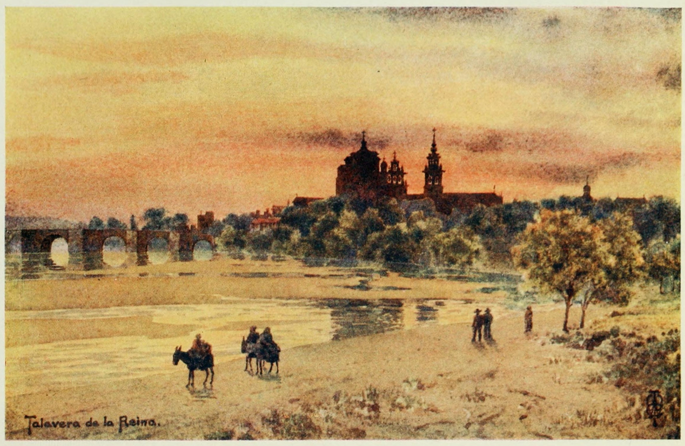 Talavera de la Reina from the banks of the Tagus.